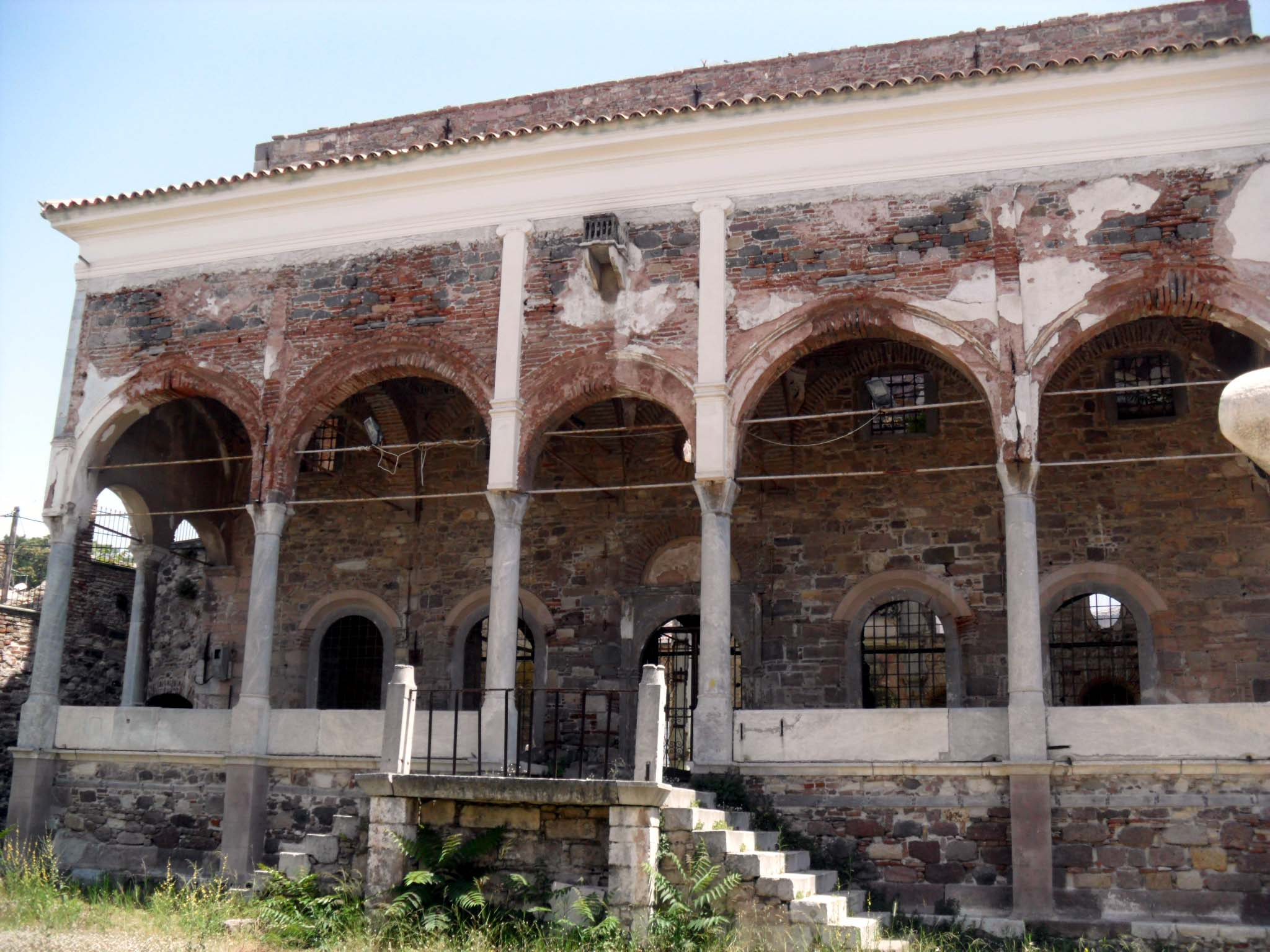 Yeni Cami, an Ottoman mosque in Mytilini